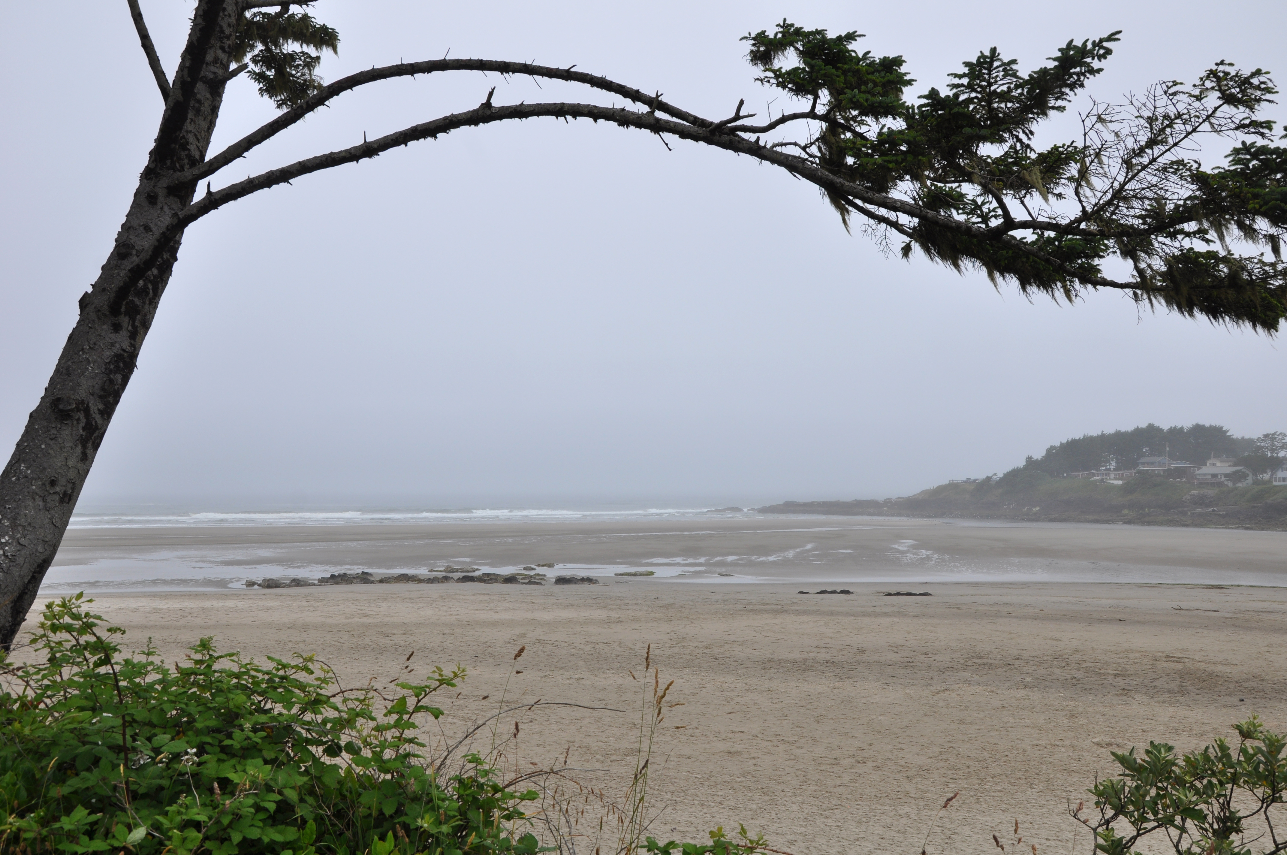 Yachats Ocean Road State Natural Site in Yachats in the U.S. state of Oregon. View is to the north across Yachats Estuary on the Pacific Ocean.